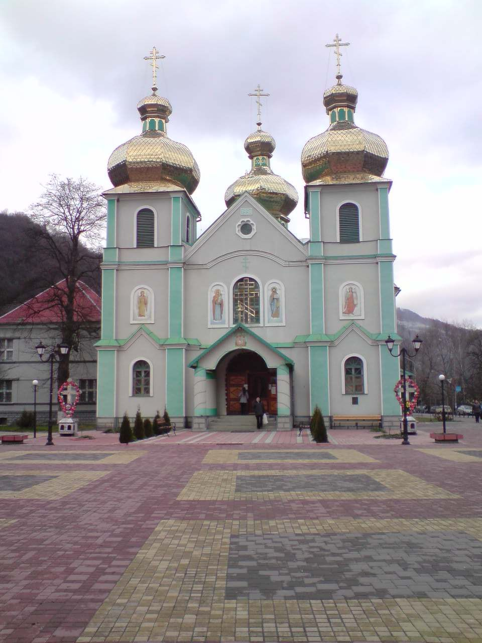 Eastern Orthodox church in Rakhiv, Ukraine